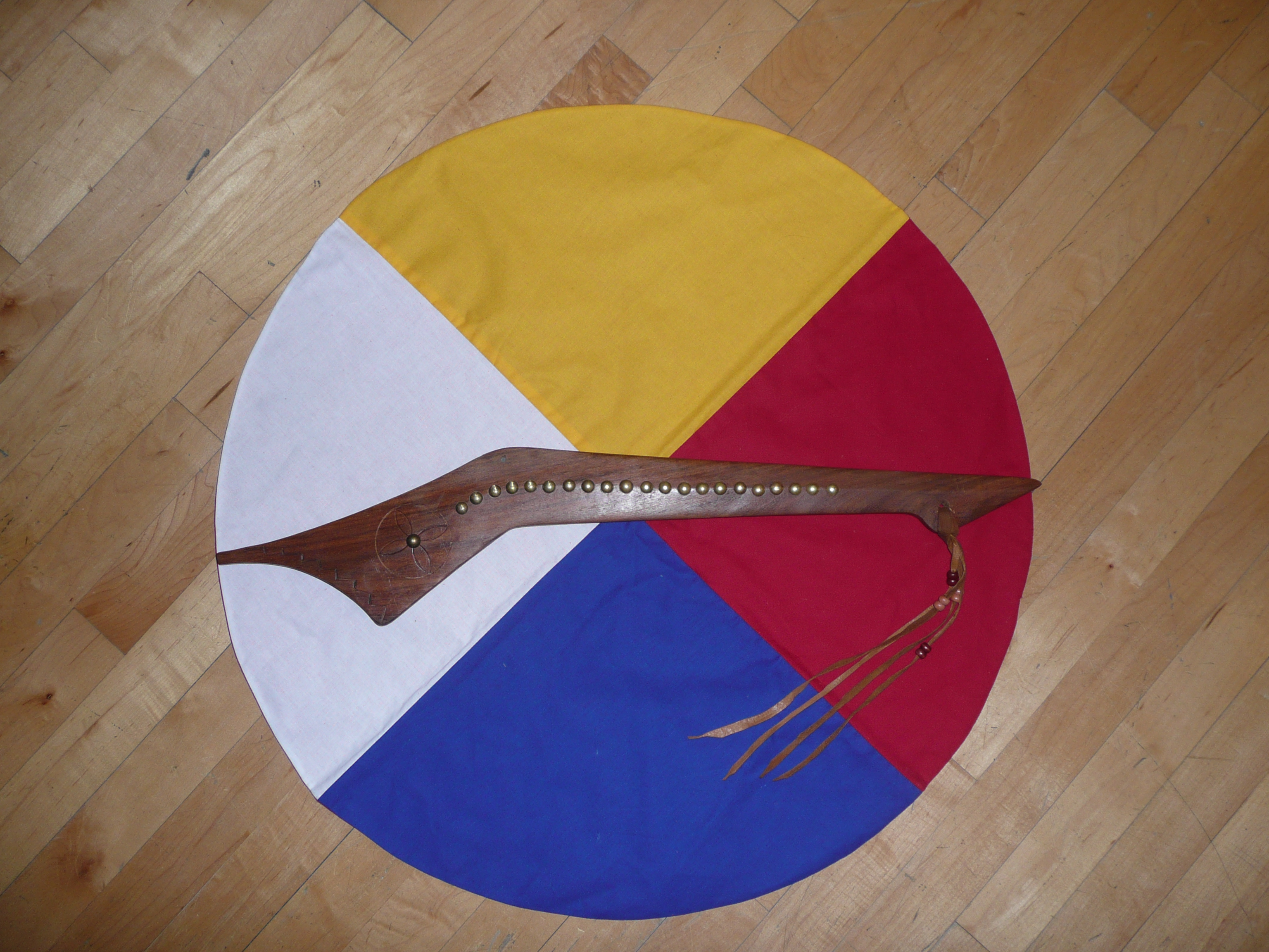 gunstock (see Okichitaw)